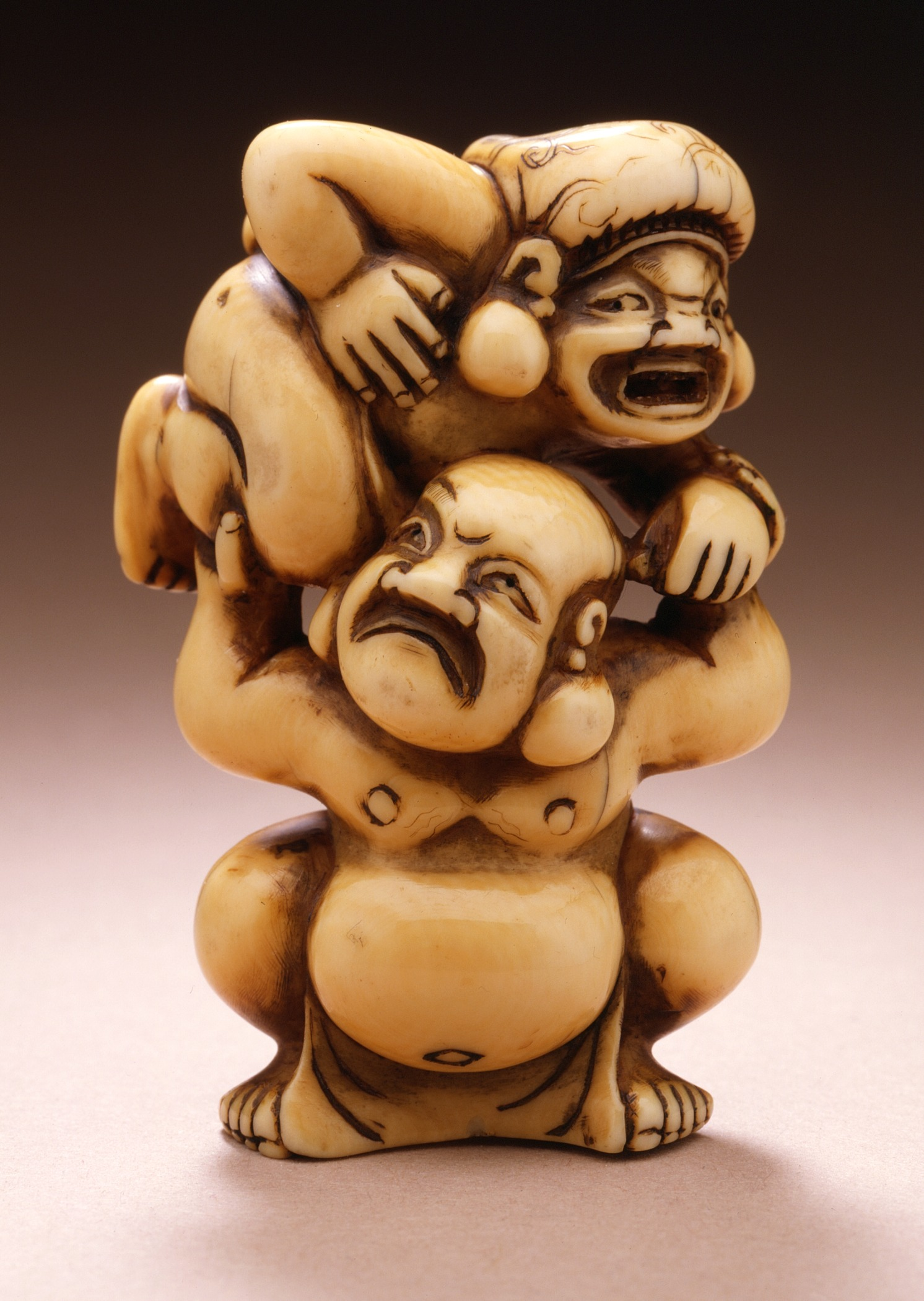 Japan, 18th century Costumes; Accessories Ivory with staining, sumi 2 1/4 x 1 9/16 x 15/16 in. (5.7 x 4.0 x 2.3 cm) Raymond and Frances Bushell Collection (M.91.250.173) Japanese Art